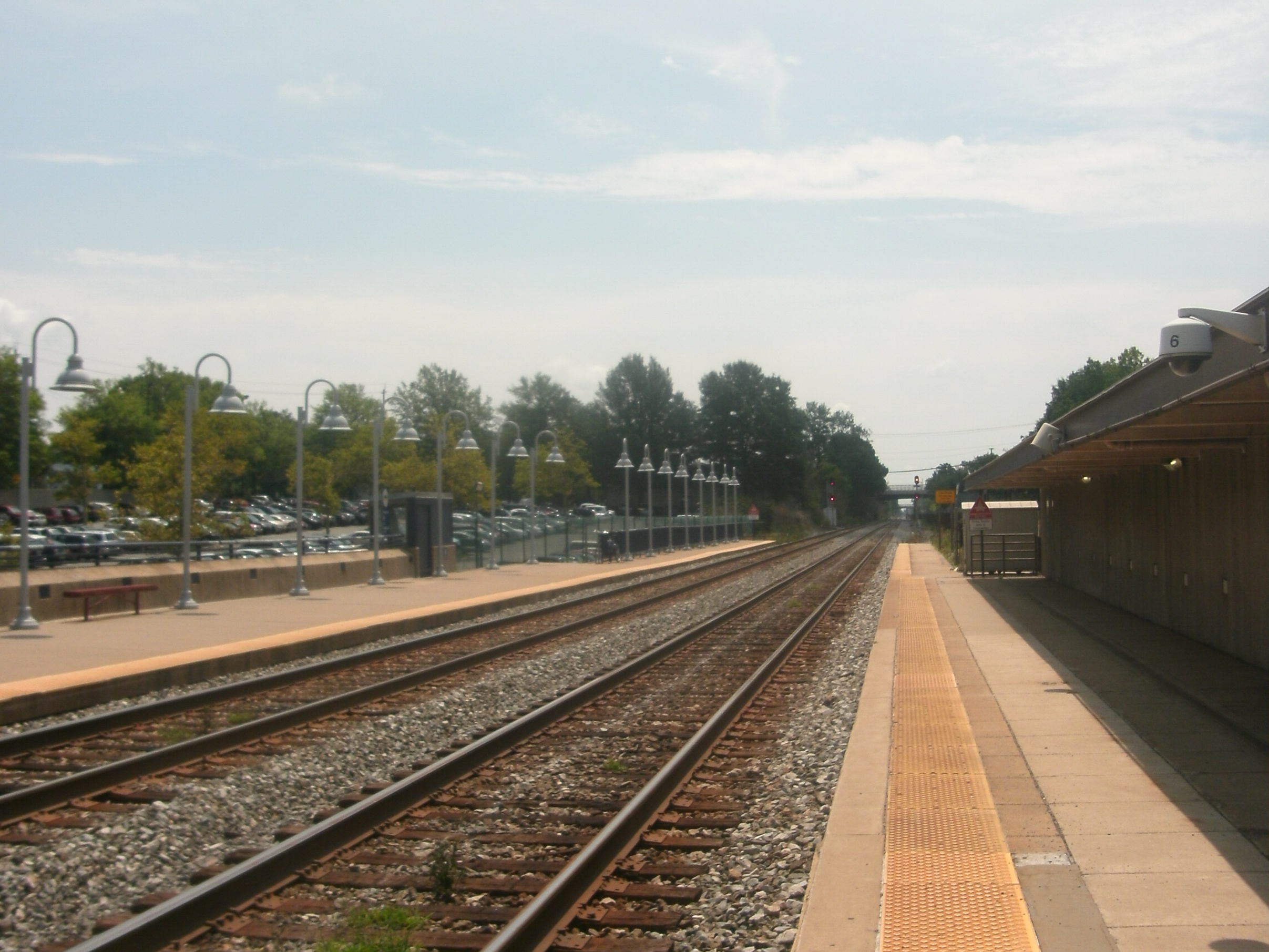 The Rockville MARC station facing towards Martinsburg on the Martinsburg-bound platform.